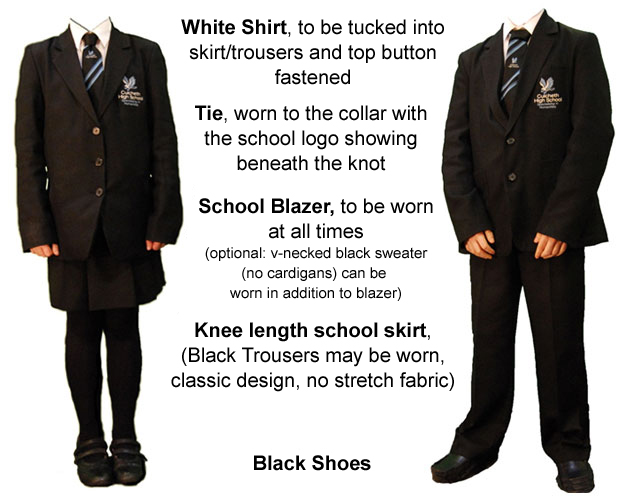 Culcheth High School Uniform